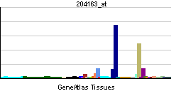 Gene expression pattern of the EMILIN1 gene.